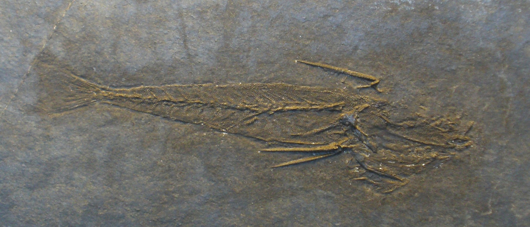 fossil of Acanthopleurus serratus